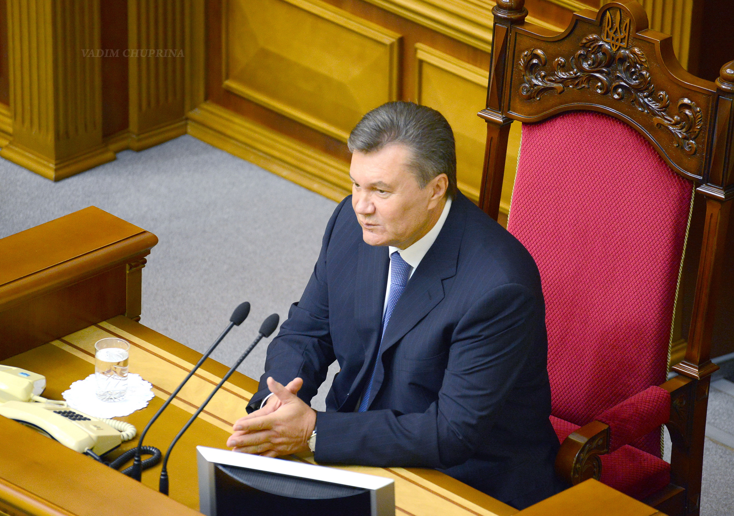 Ukrainian politicians VADIM CHUPRINA